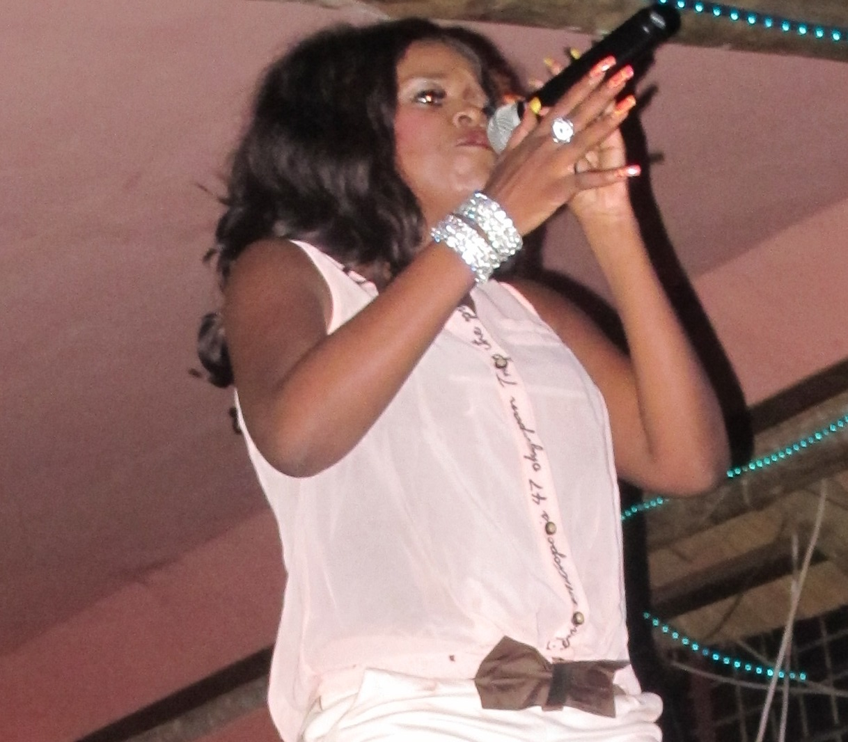 Mampi Mukape performing at a ball in 2011.